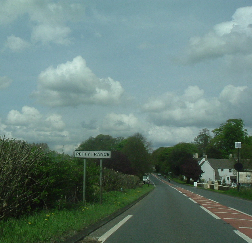 Approaching Petty France from the South on the A46